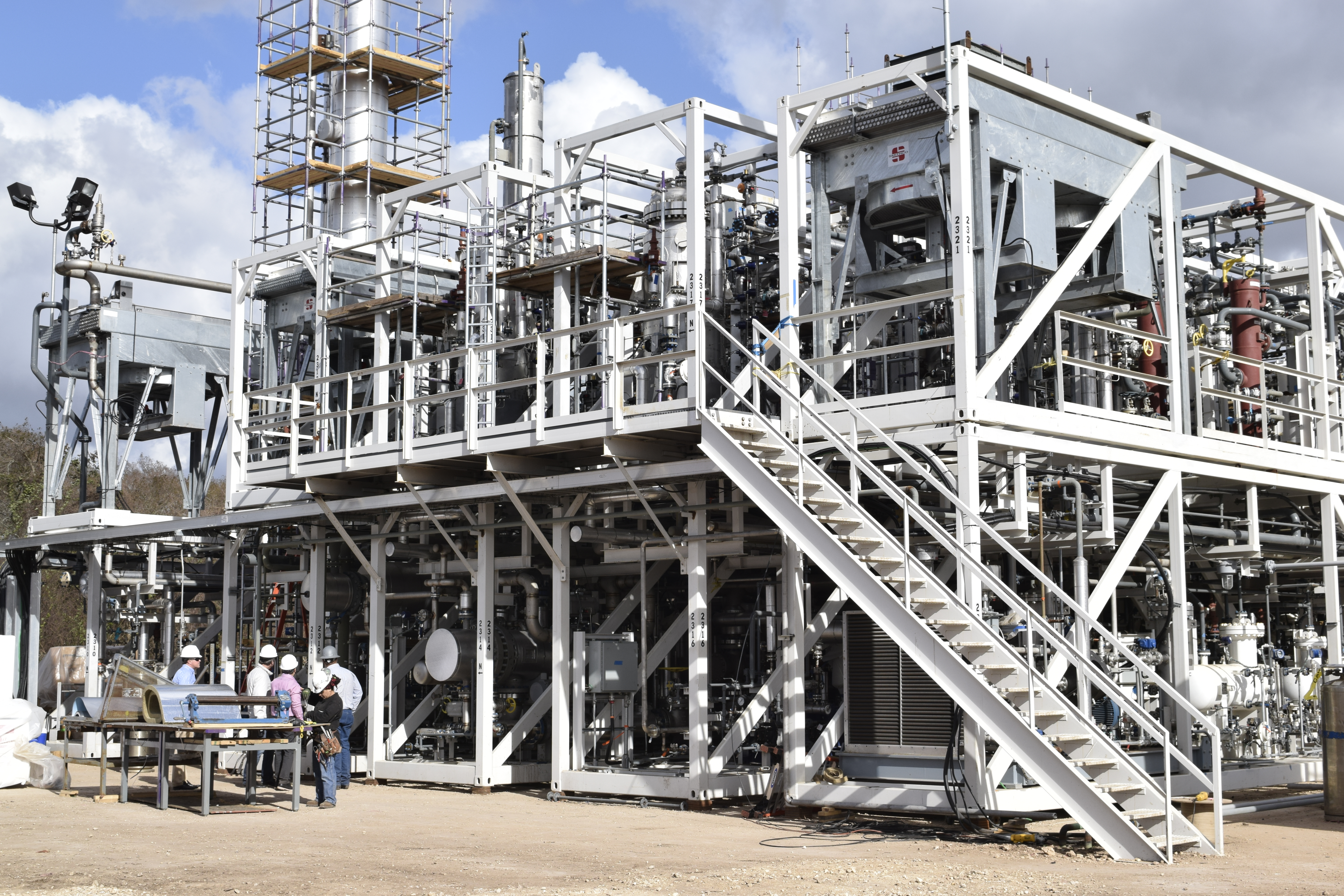 Modular transportable gas-to-liquids unit based on the direct conversion of natural gas into synthetic oil.